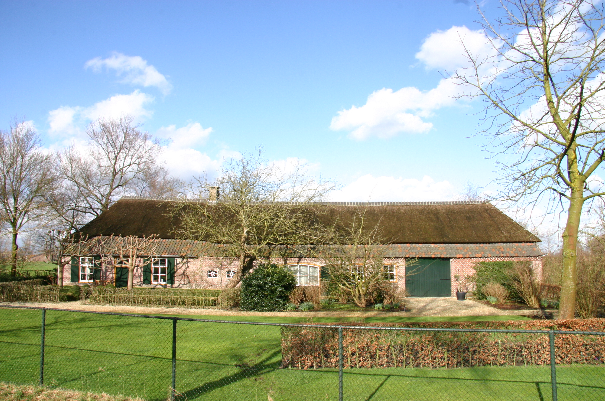 An old farmhouse, dated 1750 at Lieshout, the Netherlands